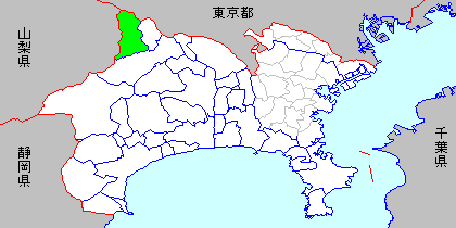 Map of former Fujino Town, Kanagawa prefecture, Japan (now part of Sagamihara city)